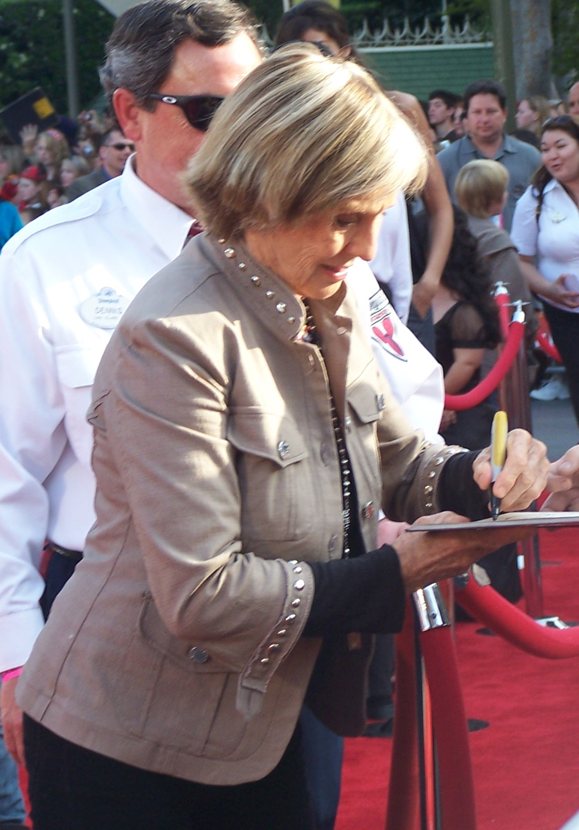 American actress Cloris Leachman.